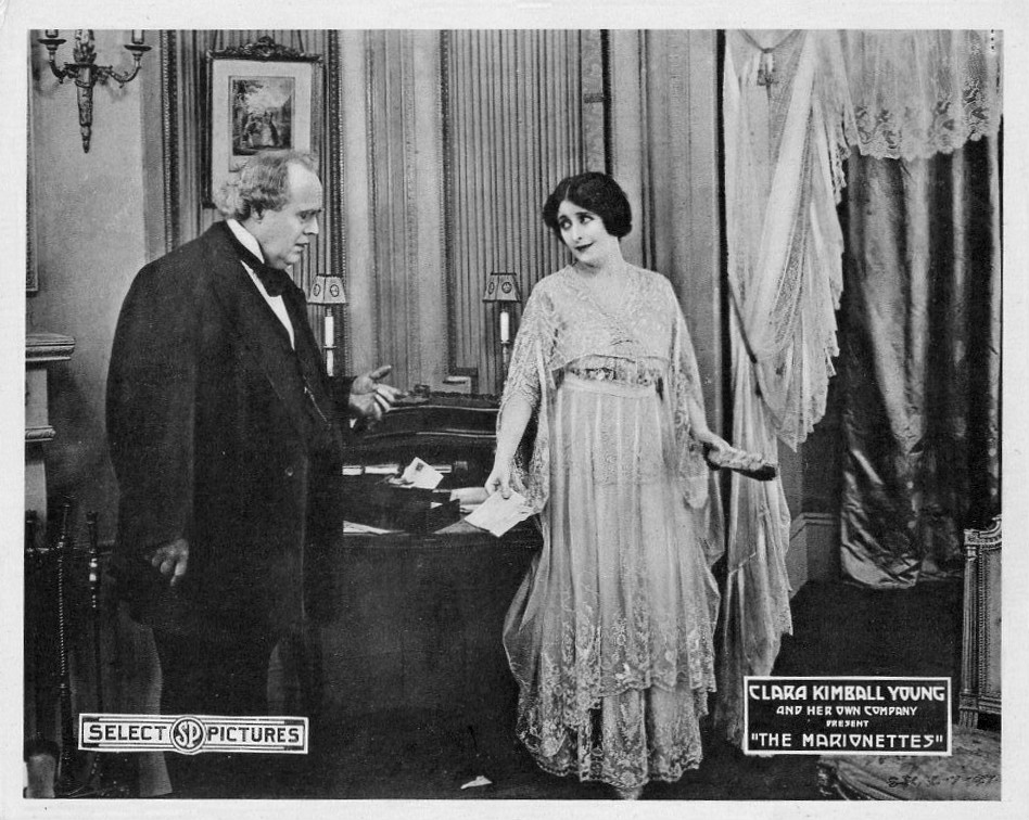 Lobby card for the 1918 American film The Marionettes with Edward Kimball and Clara Kimball Young.